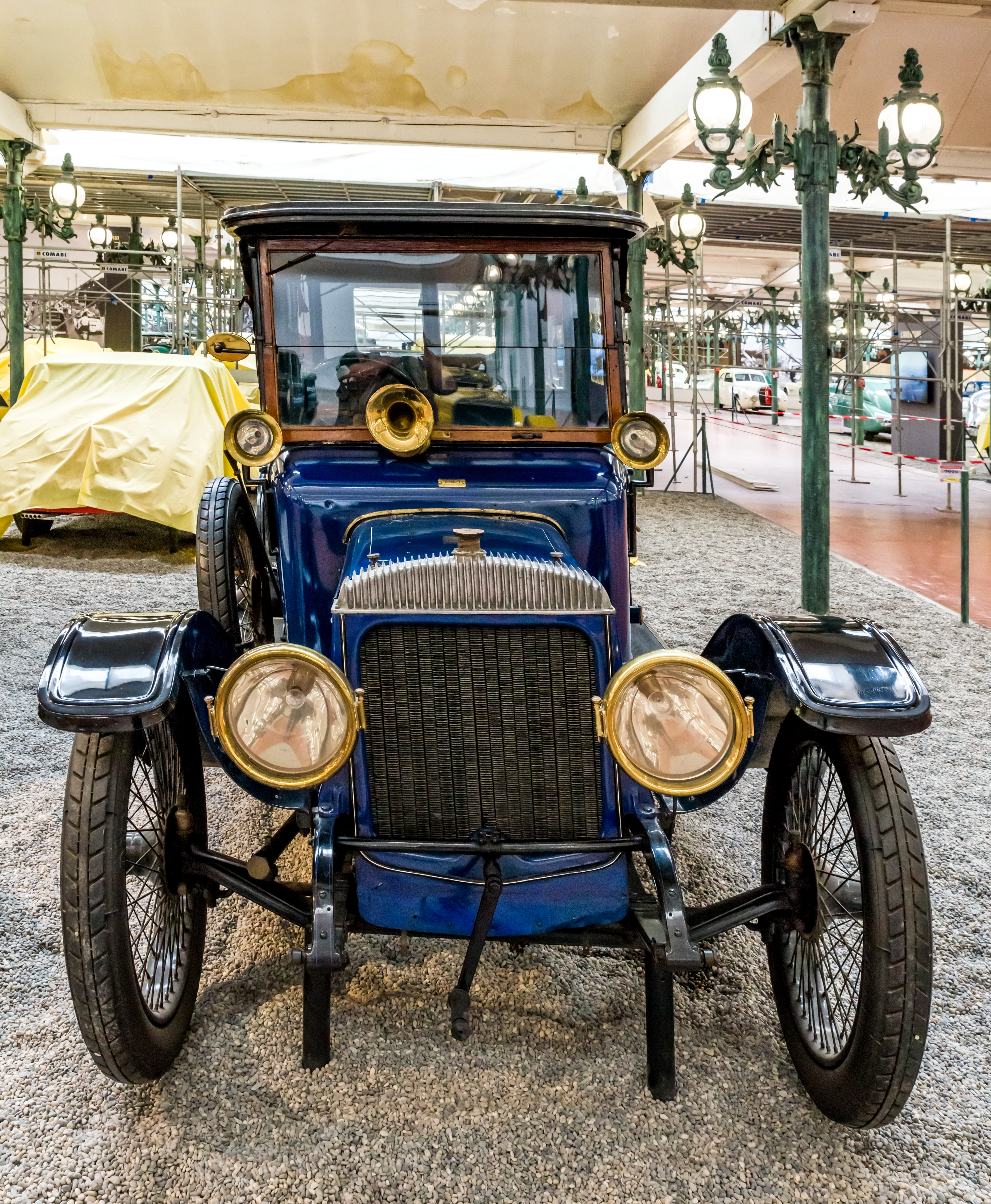 pictures from the Cité de l’Automobile – Musée National – Collection Schlump in Mulhouse, France ptictures from the 10. may 2018